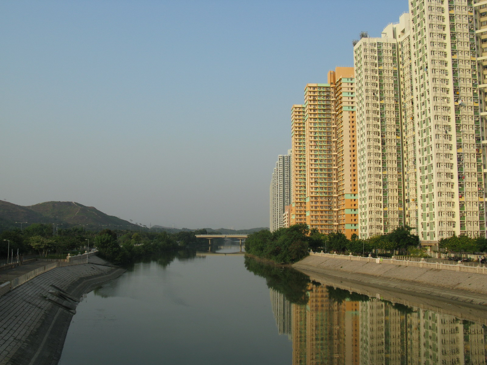 Tin Shui Wai Nullah